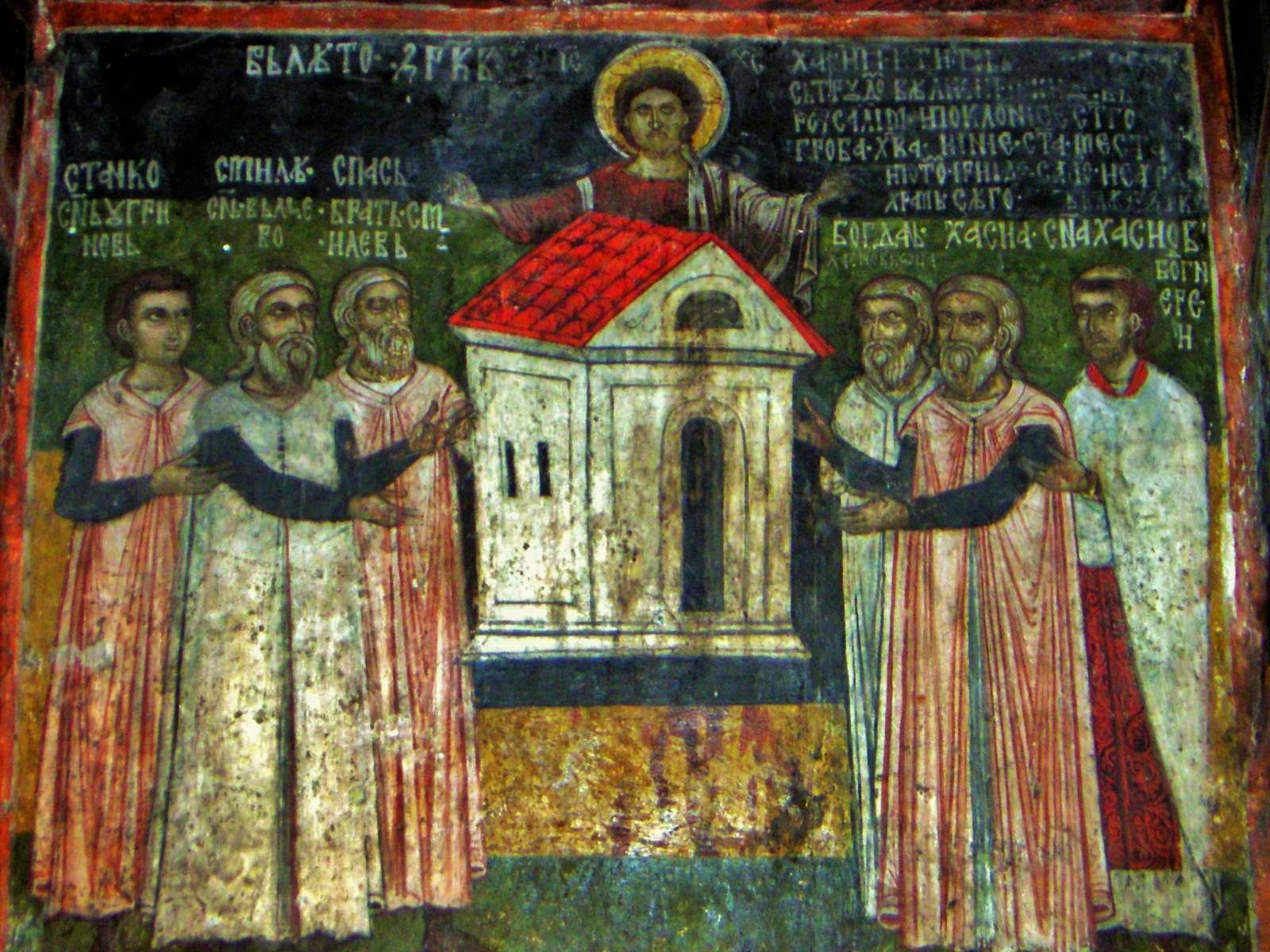 Sts. Theodore Tyron & Theodore Stratelates in Dobarsko Fresco of the Builders and Ktetors 2